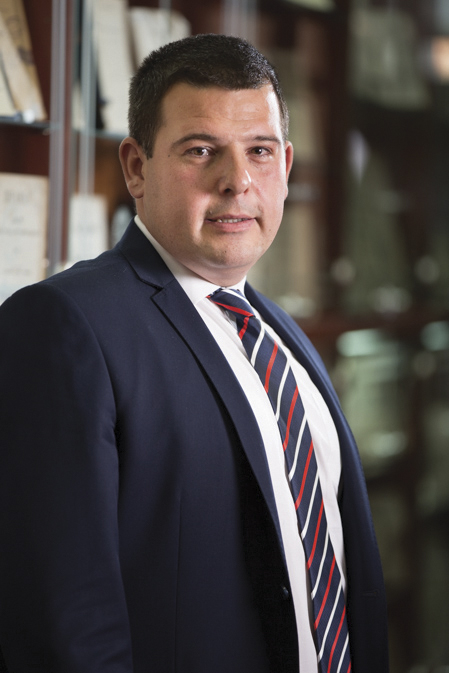 др Драгутин Аврамовић